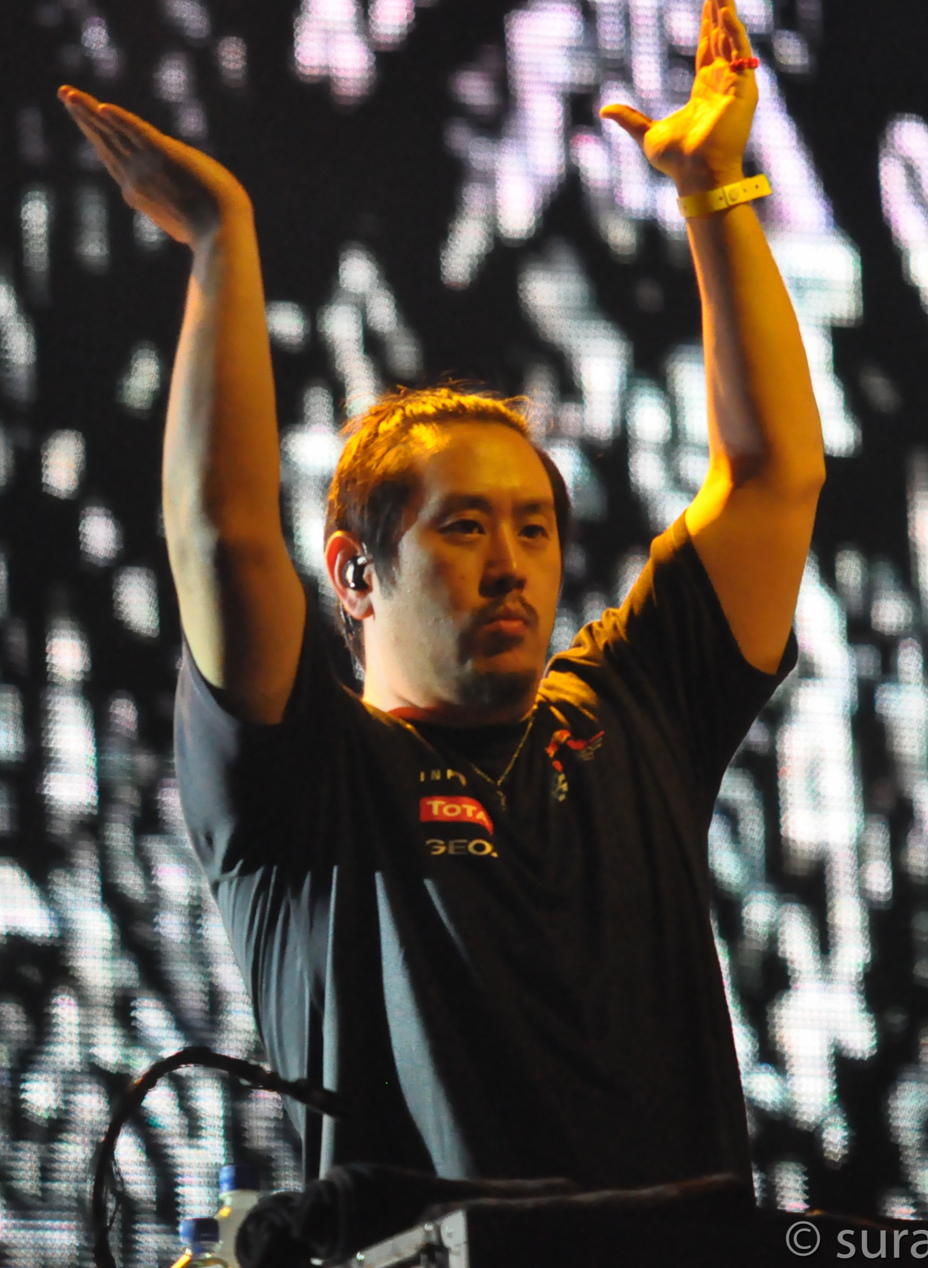 Joe Hahn, turntablist for Linkin Park, performs at a concert in Singapore on September 24, 2011 Date